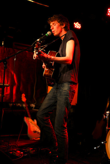 Adam Ross of Randolph's Leap 2